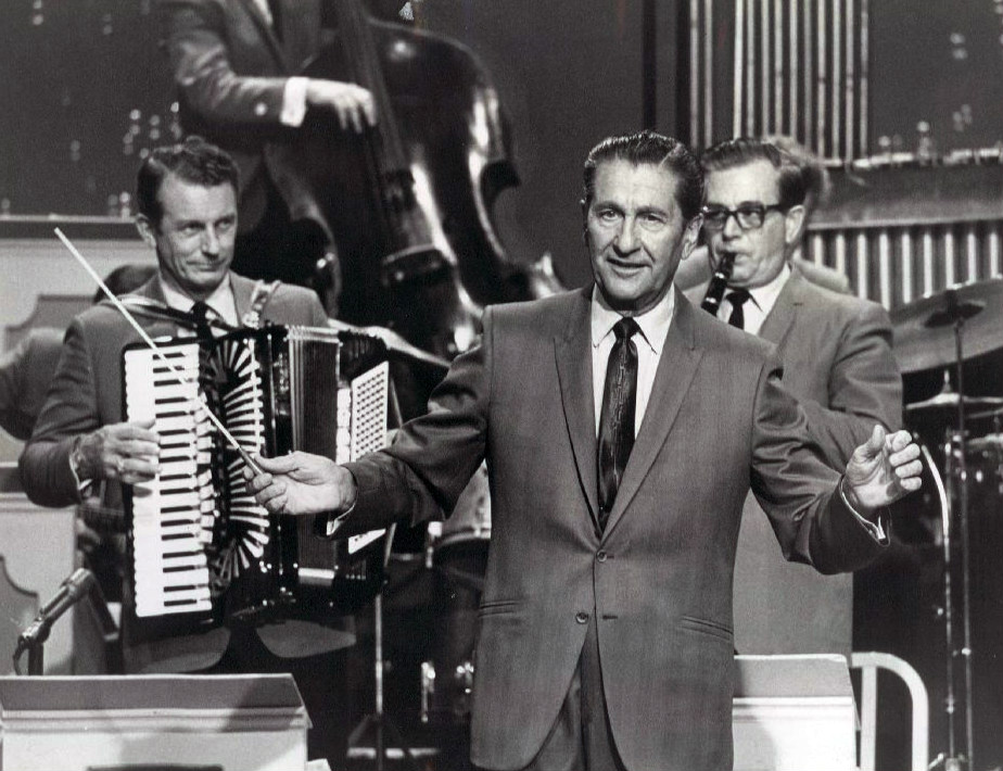 Publicity photo of Lawrence Welk and his orchestra from the television program The Lawrence Welk Show. Myron Floren is seen at left with his accordion.